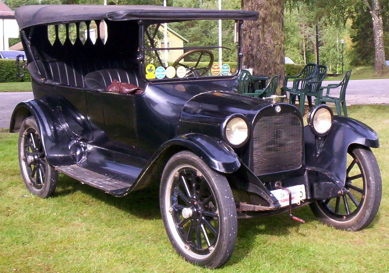 Dodge Model 30 Touring 1917